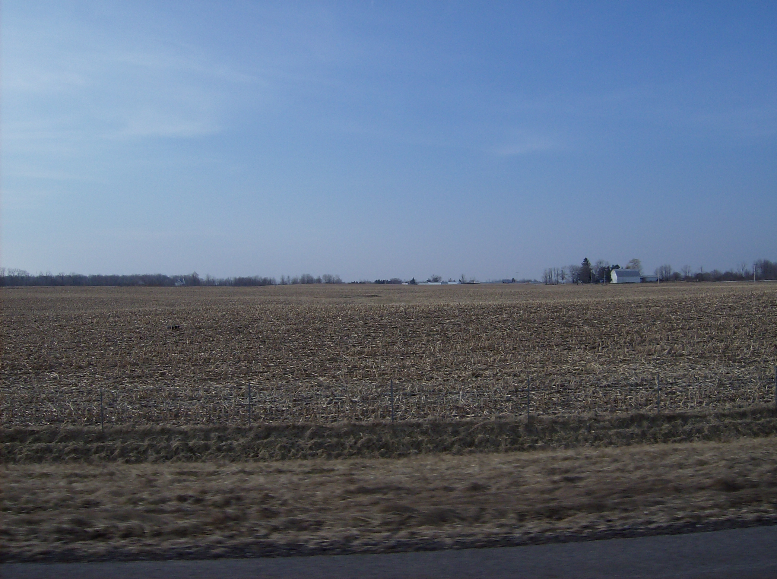 View of farmland in Sandusky Township, Richland County, Ohio, United States. Picture taken from U.S. Route 30.